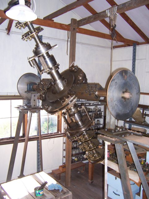 Linden Observatory Complex: Planetarium